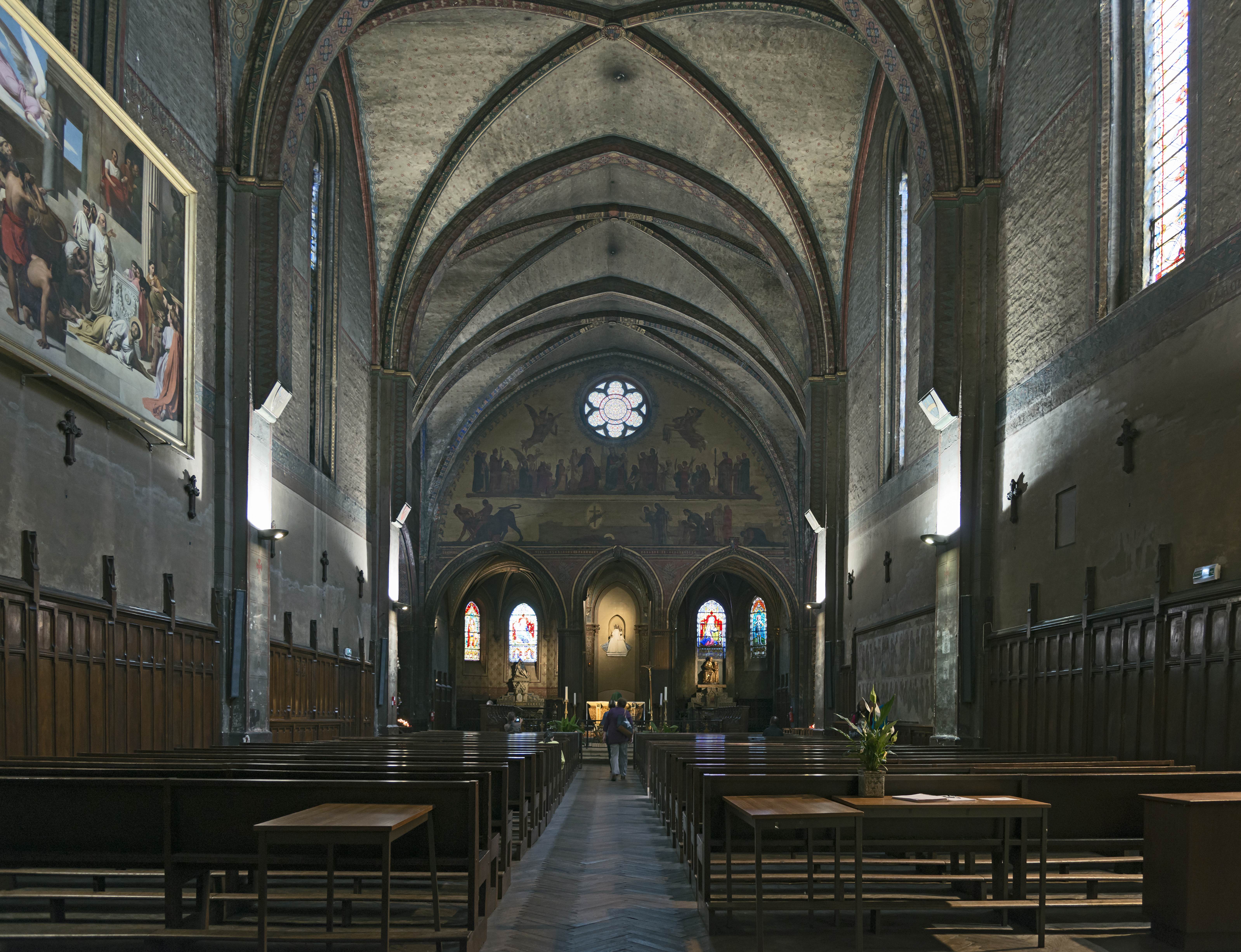 Church Notre-Dame du Taur from Toulouse. Interior.